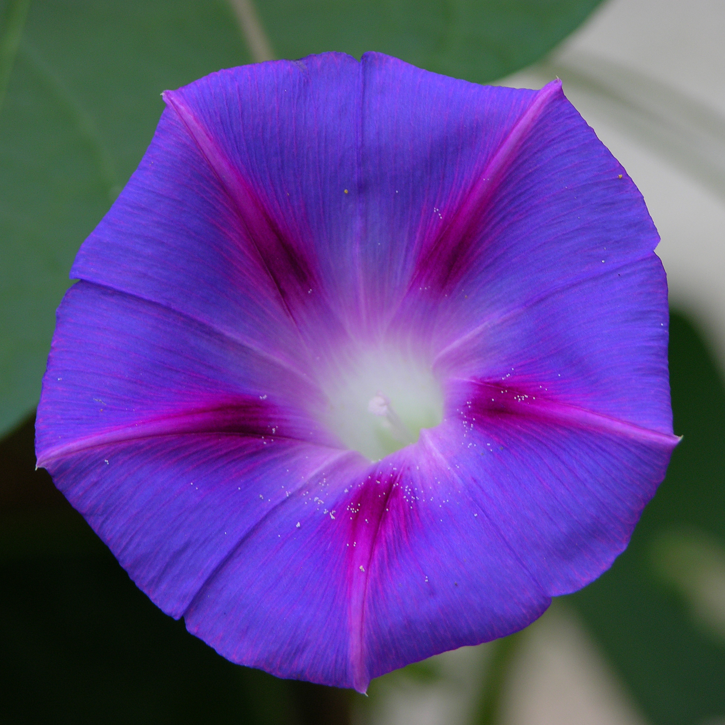 A picture of a blue and purple Morning glory (Ipomoea purpurea).